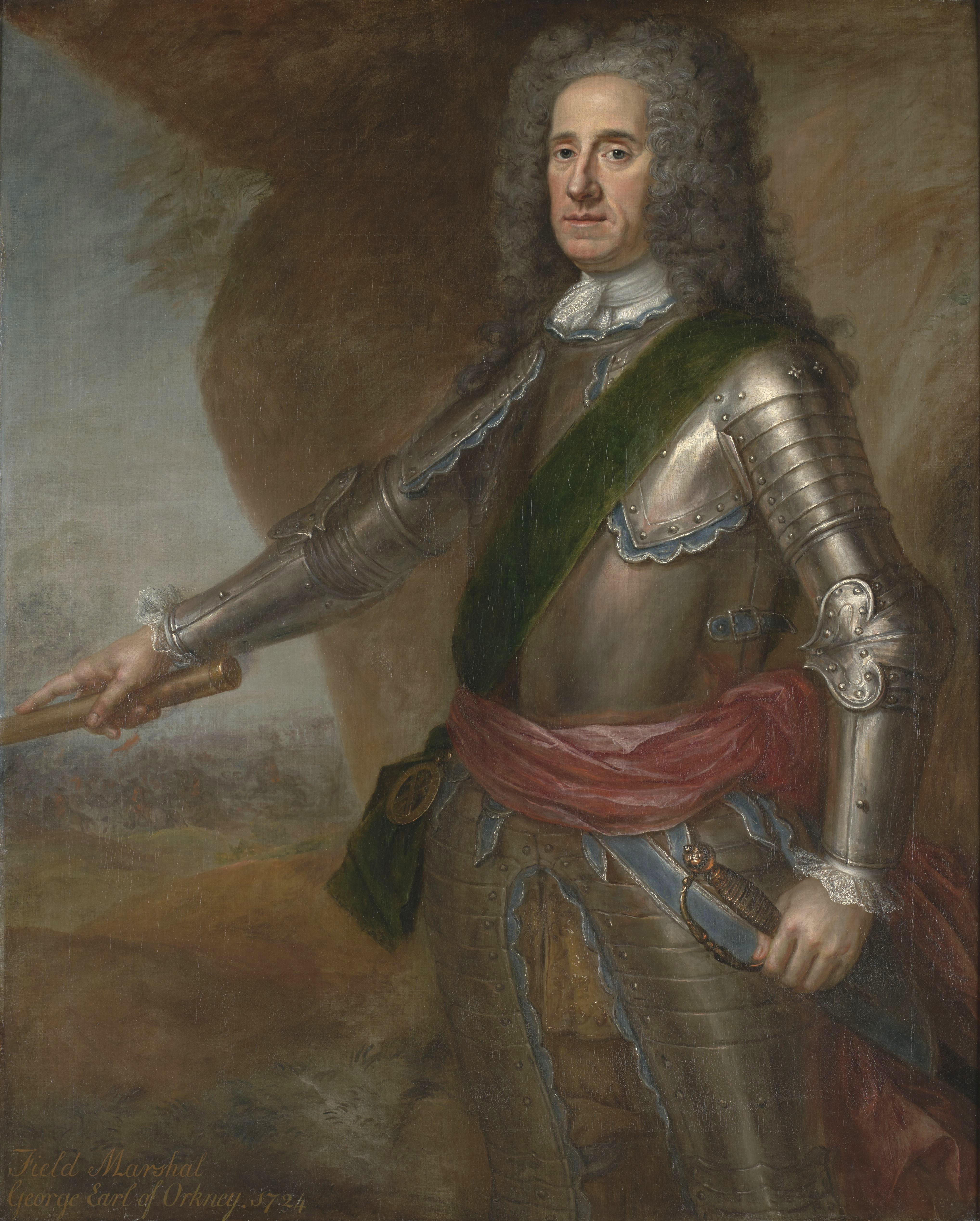 Portrait of George Douglas-Hamilton, 1st Earl of Orkney (1666-1737)